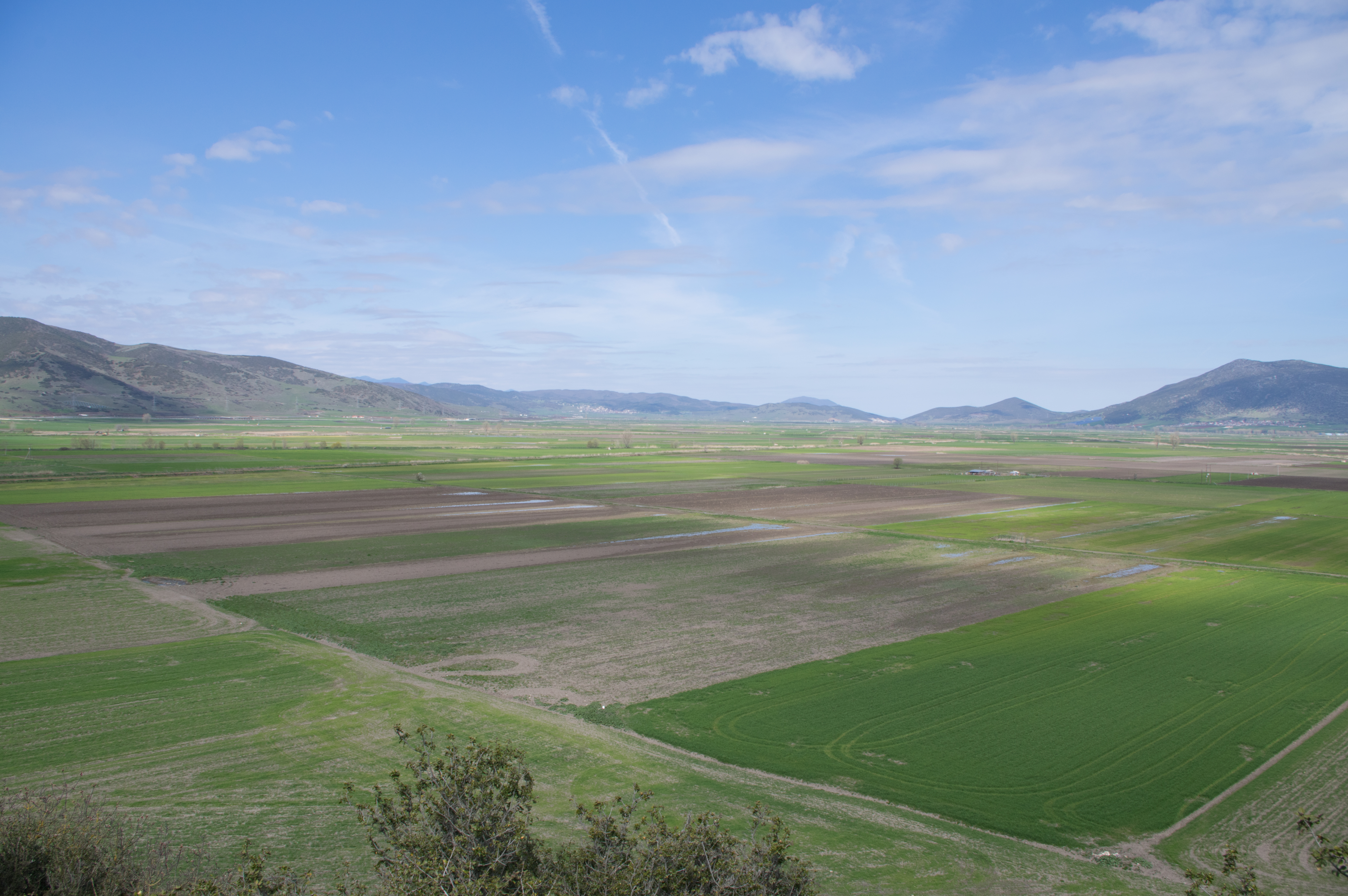 The former lake Xynias, drained in the 1940s, seen from Nisi, Xiniada.